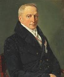 Portrait of Privy Councillor, chamberlain Carl Emil count Moltke (1773-1858) , 1837